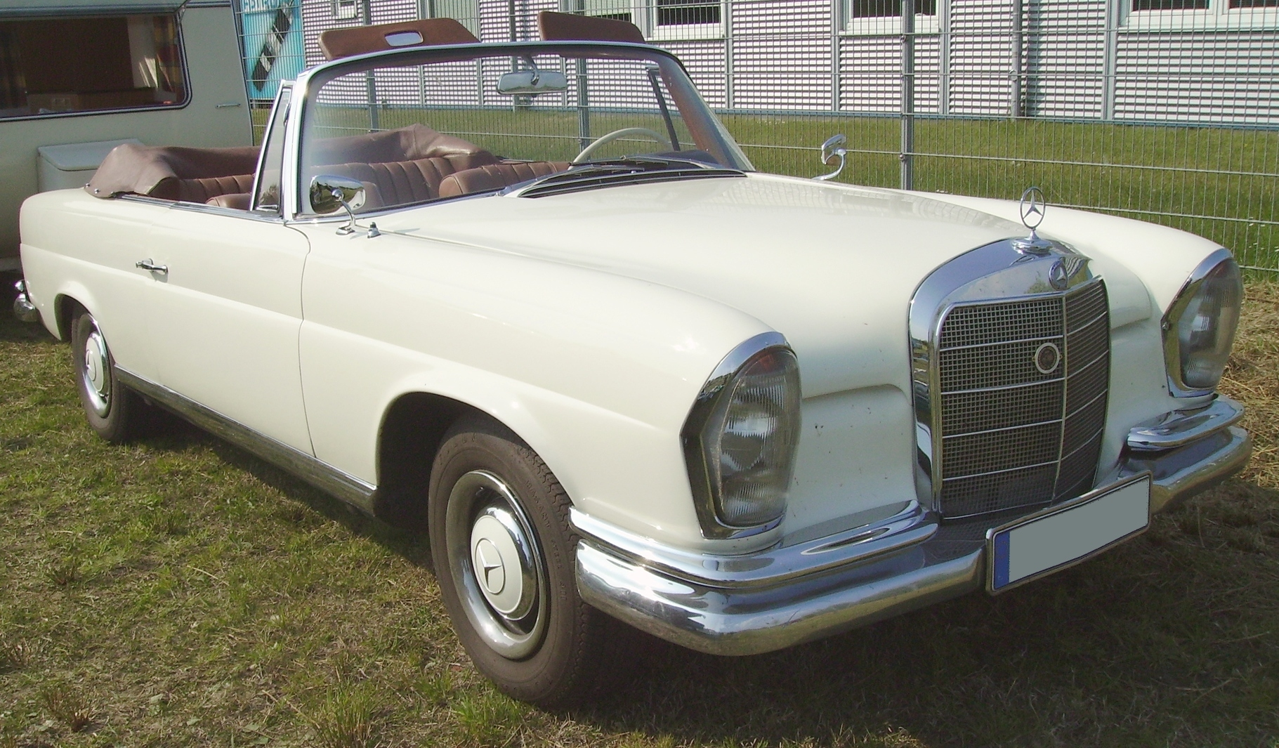 A Mercedes-Benz 220 SE convertible (W 111)